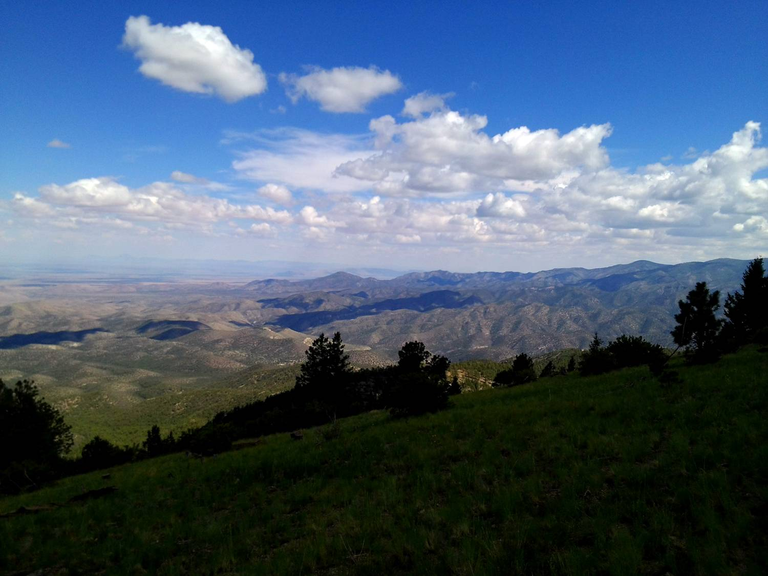 A view from the San Mateo Mountains — located within Cibola National Forest, in New Mexico. View just southeast of the Withington Wilderness Area, in Socorro County.